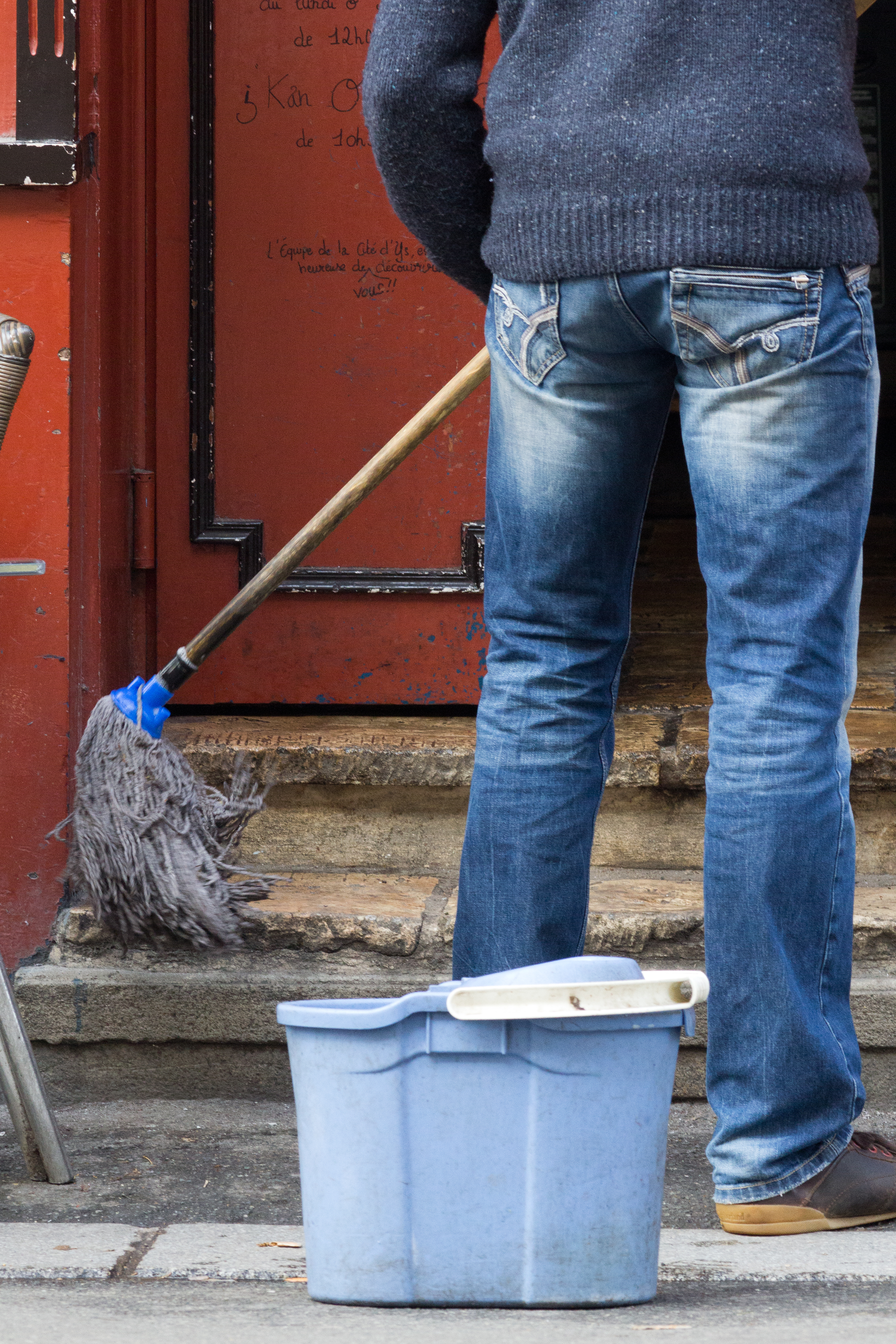 A man mopping the steps of a bar.